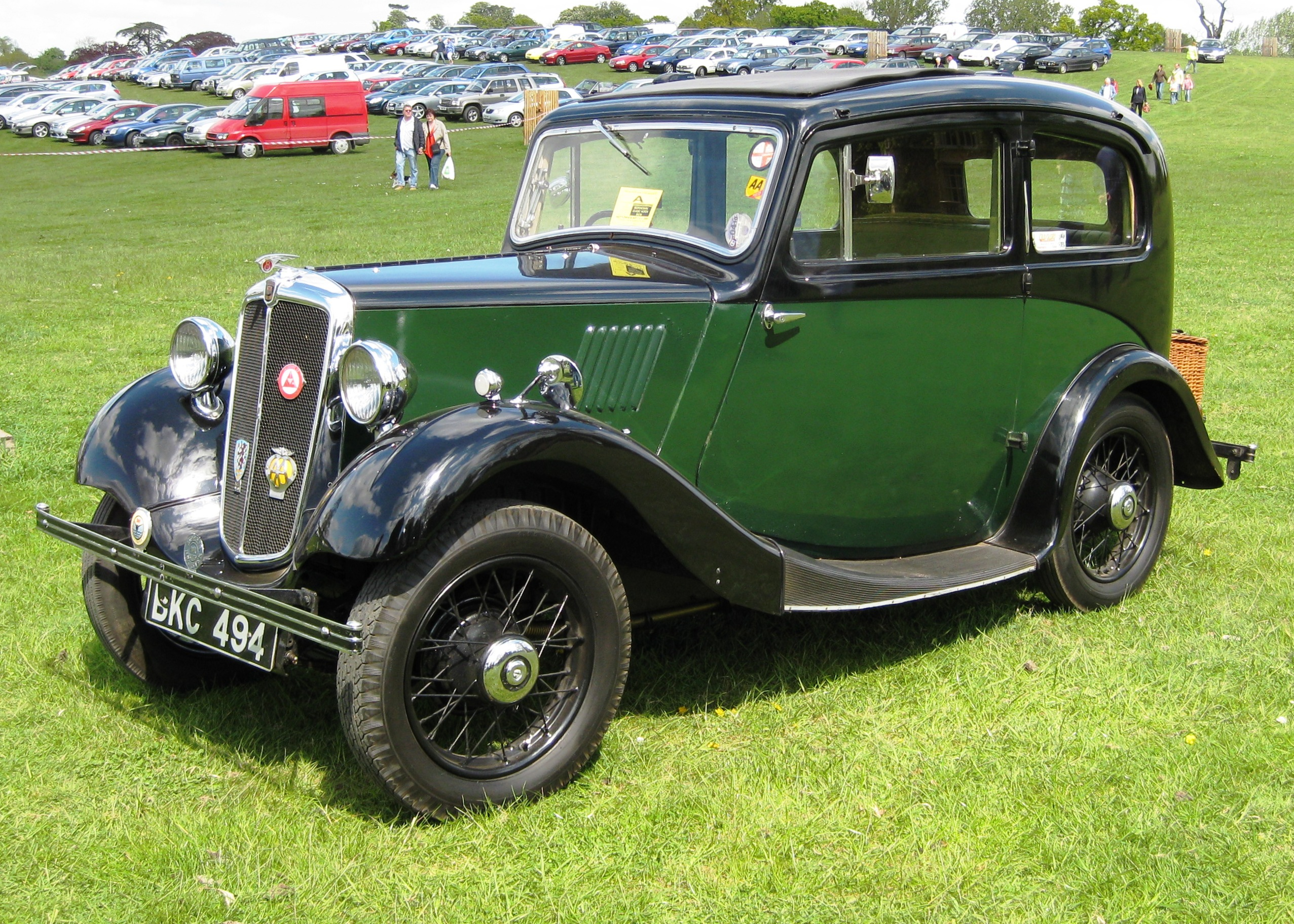 Morris 8 from 1935 in a field near Biggleswade